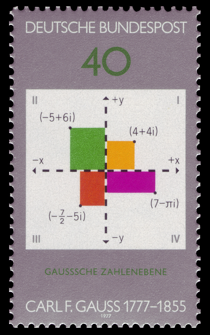 200th day of birth of Carl Friedrich Gauß Ausgabepreis: 40 Pfennig First Day of Issue / Erstausgabetag: 14. April 1977 Michel-Katalog-Nr:928